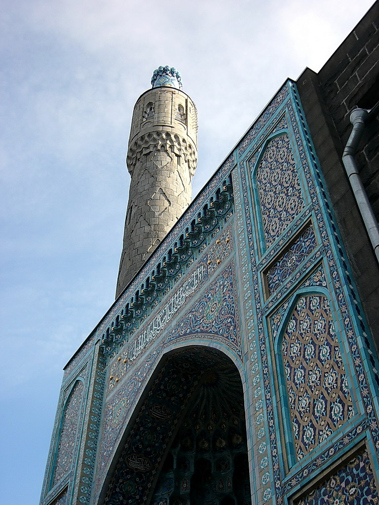 The minaret of Saint Petersburg Mosque, photograph by Evgeny Gerashchenko.